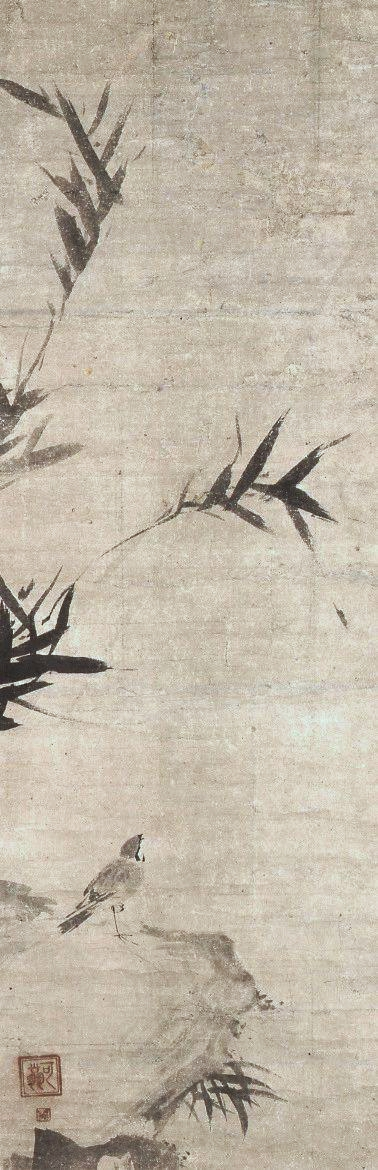 Bamboo with a Sparrow, Yamato Bunkakan, Nara, Nara, Japan